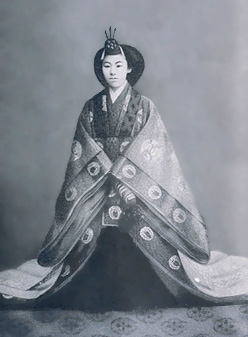 Japanese Empress Teimei (Sadako) at enthronement of Emperor Taishō.